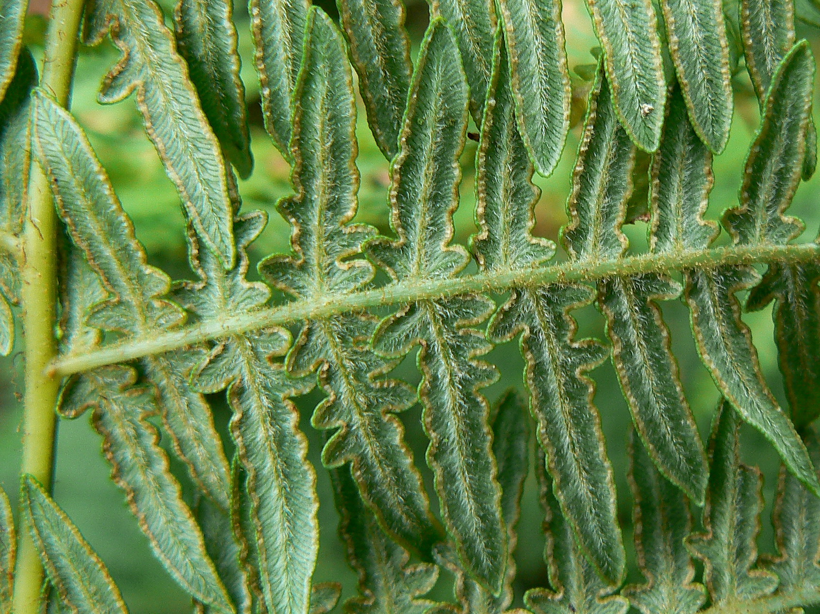 Pteridium aquilinum, Rechterbach (Belgium). Detail of sori.